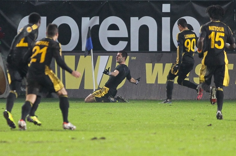 Ismail Isa